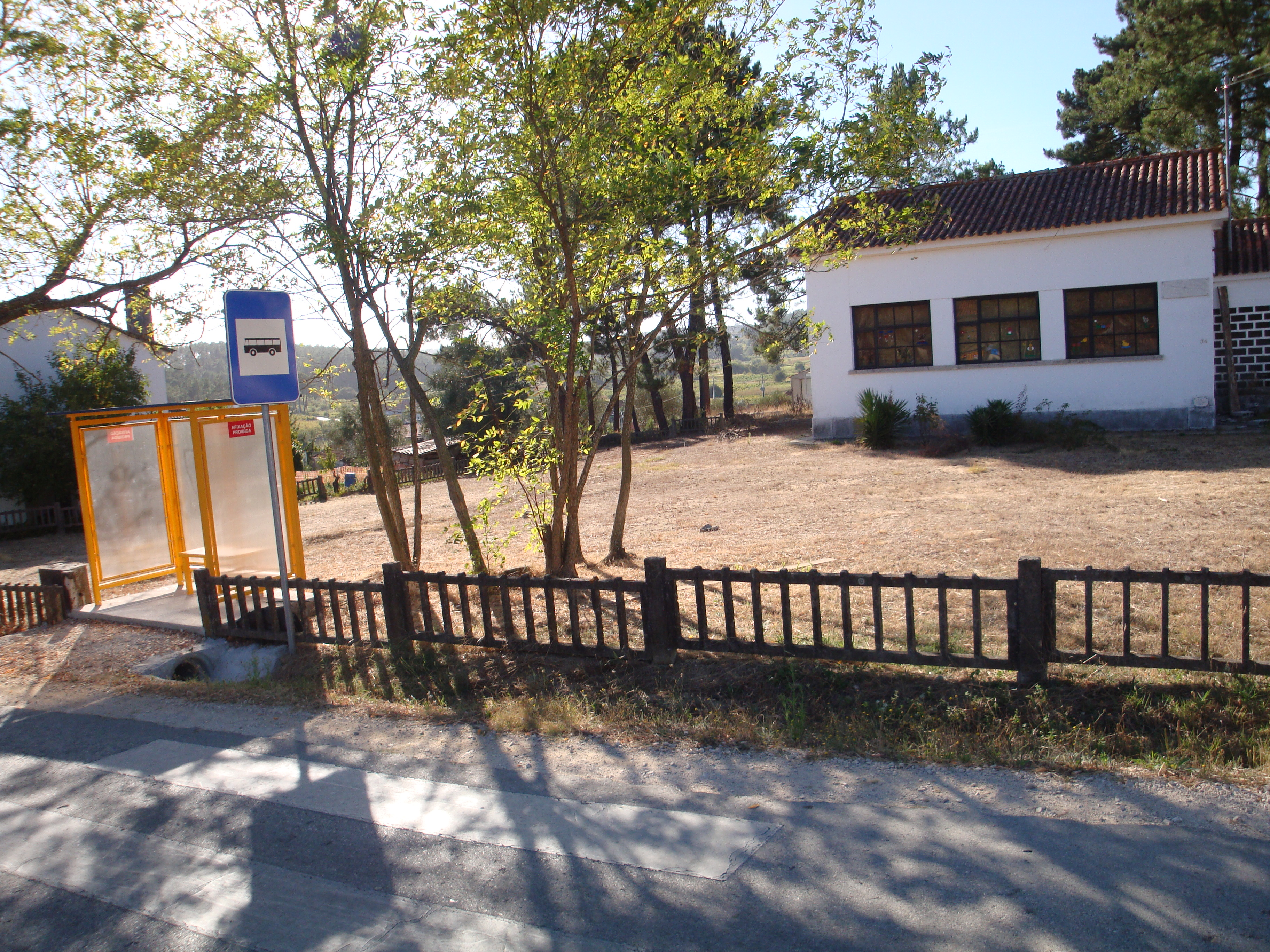 school